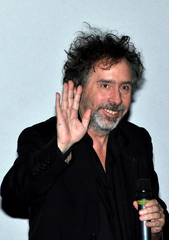 Tim Burton at the french premiere of "Frankenweenie"